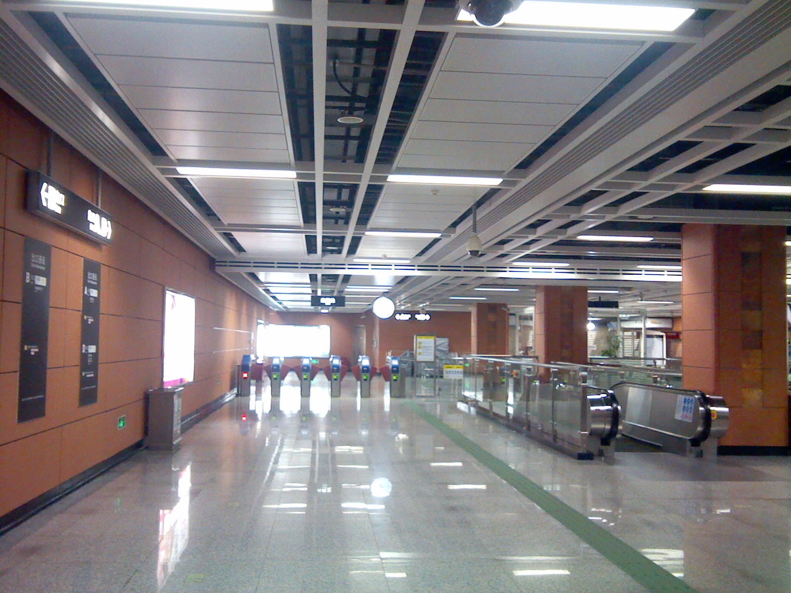 车站站厅啊啊啊